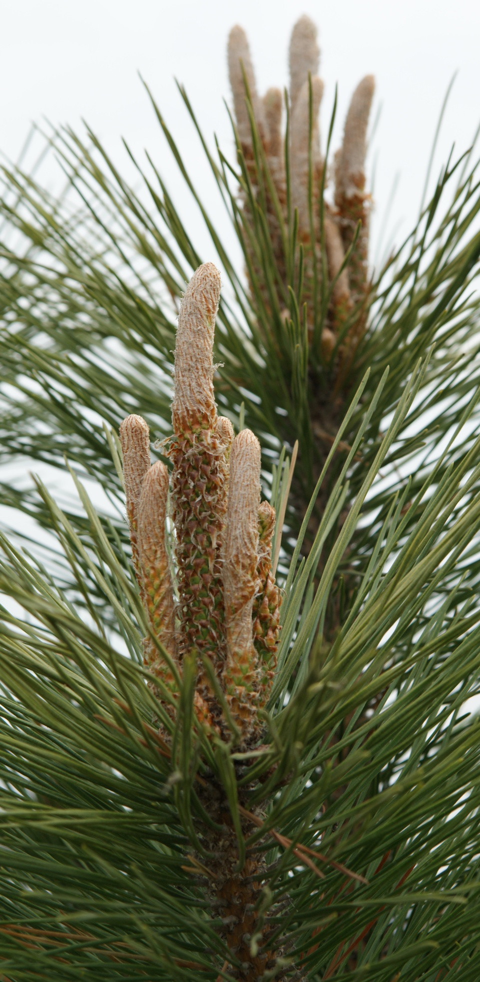 Pinus thunbergii foliage, near Ansan, South Korea